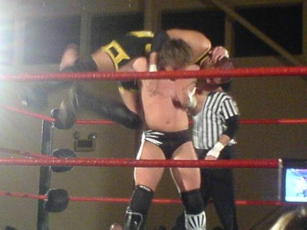 A picture of chris sabin i took at PWG show in Van Nuys, CA in 2007.